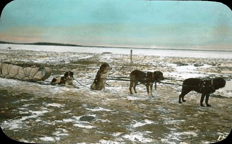 Photograph, glass lantern slide, Dog team and sled, Ile-à-la-Crosse, SK, about 1910, Anonymous, Silver salts and transparent ink on glass - Gelatin dry plate process - 8 x 10 cm